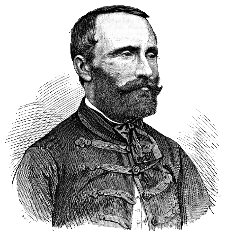 Albert Kenessey (1828-1879), Hungarian sailor, member of the Hungarian Academy of Sciences